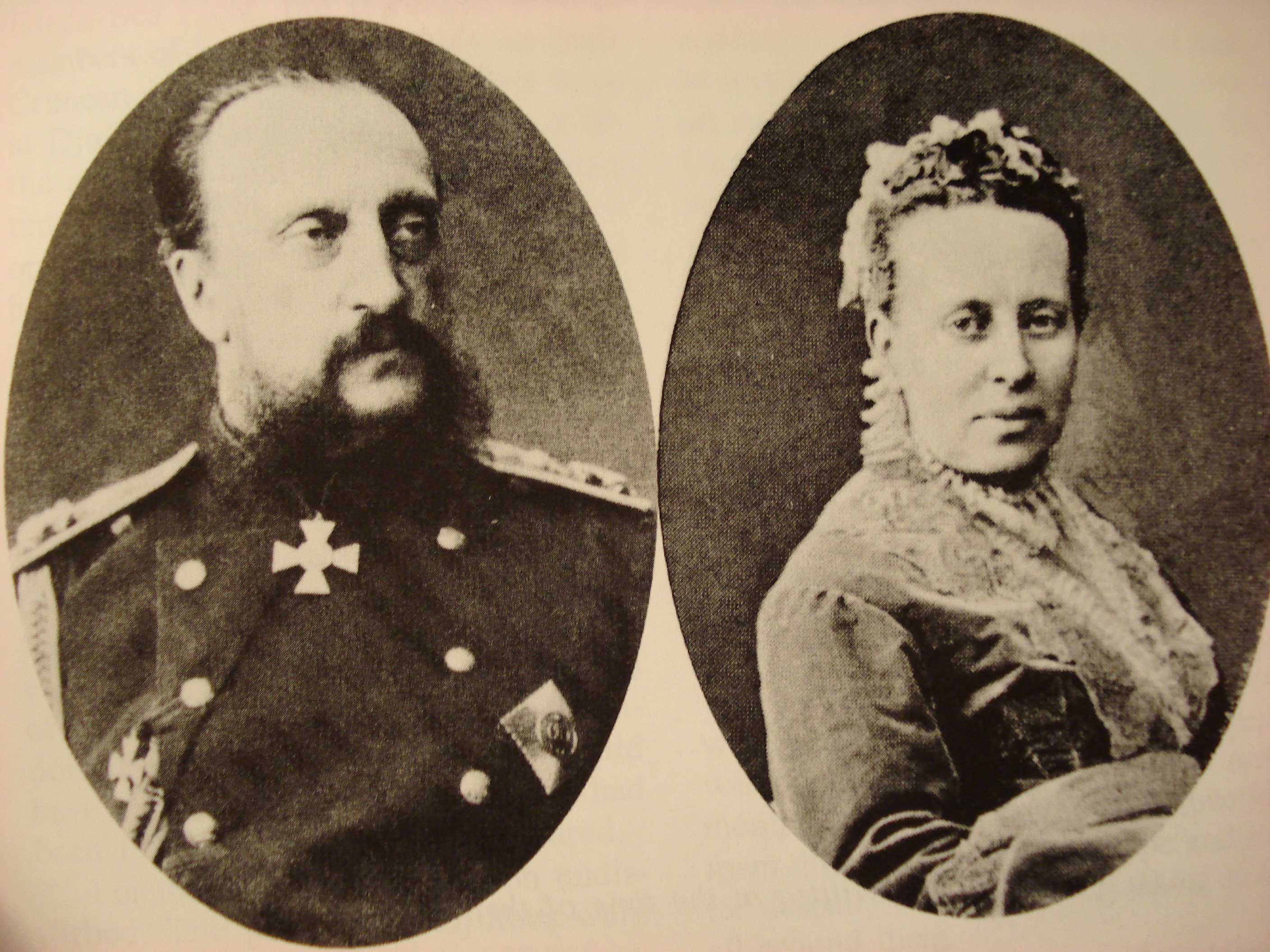 Grand Duke Nicholas Nikolaevich of Russia (1831-1891) with his wife Grand Duchess Alexandra Petrovna